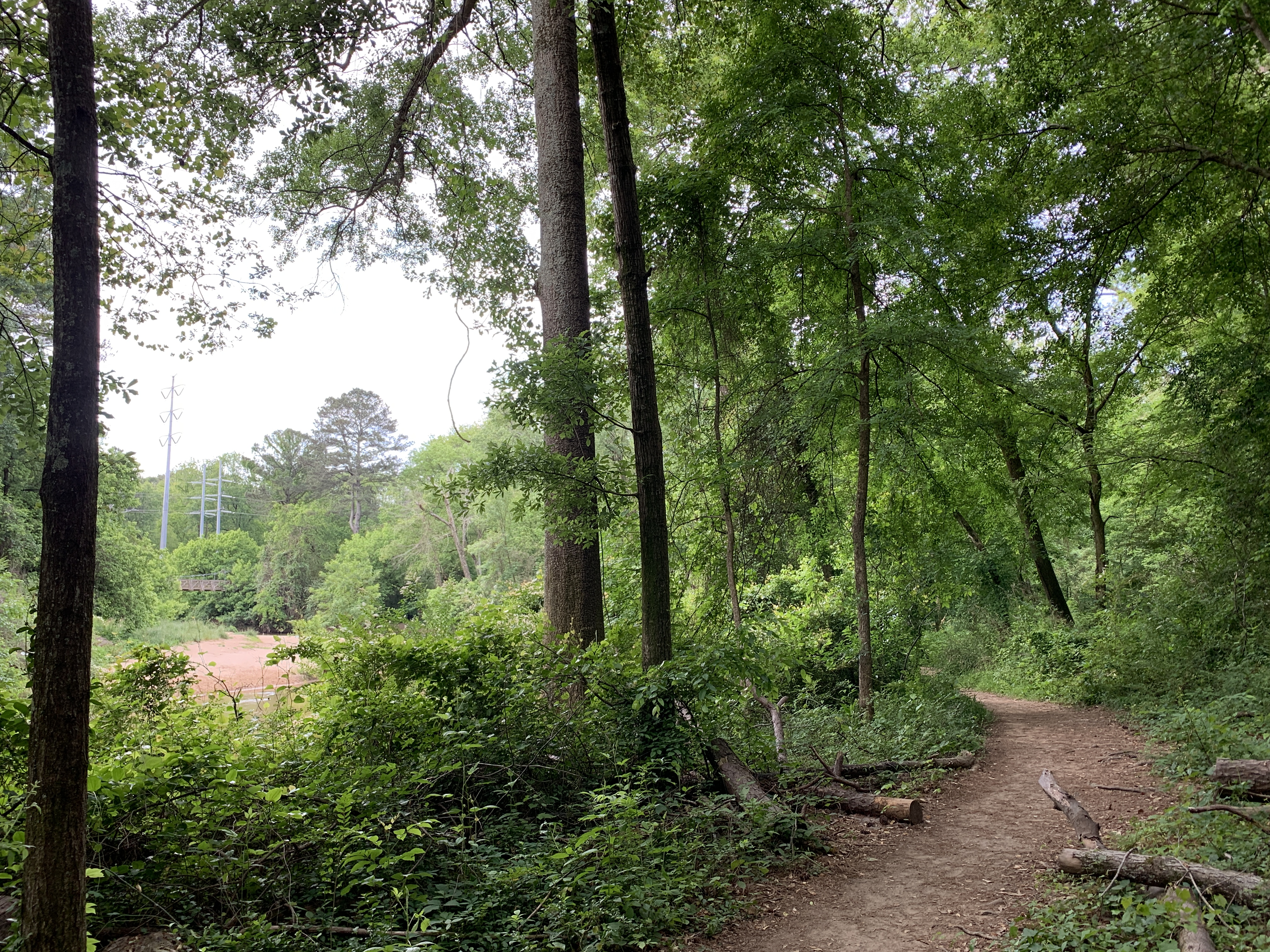 Morningside Nature Preserve